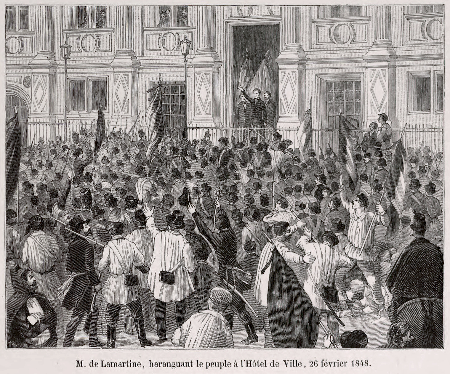 In this illustration, a key representative of the 1848 revolutionaries in Paris, Lamartine, addresses a group of likeminded revolutionaries on the value and significance of the new French flag. The provisional government of the February Revolution in 1848 took over and temporarily inhabited the Hôtel de Ville.